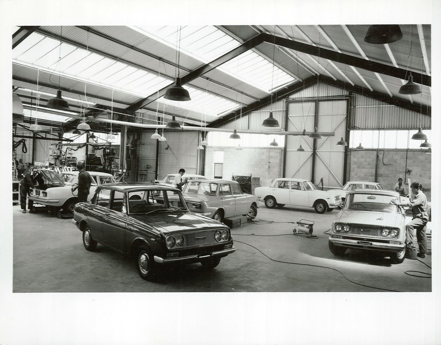 Title Steel Brothers Ltd., Christchurch. Publicity Caption Finishing touches are applied to Toyota Motor-cars, assembled at the plant of Steel Brothers (Addington) Ltd., in Christchurch, for the Toyota franchise-holders, the newly-formed company of Consolidated Motor Industries Ltd. Production began in February 1967 of Toyota Coronas - the latest of an increasing number of Japanese models to become available in New Zealand. Photographer Not identified. (R24461898) February 1967, Christchurch R24461898 AAQT 6539 W3537 71 / A81619